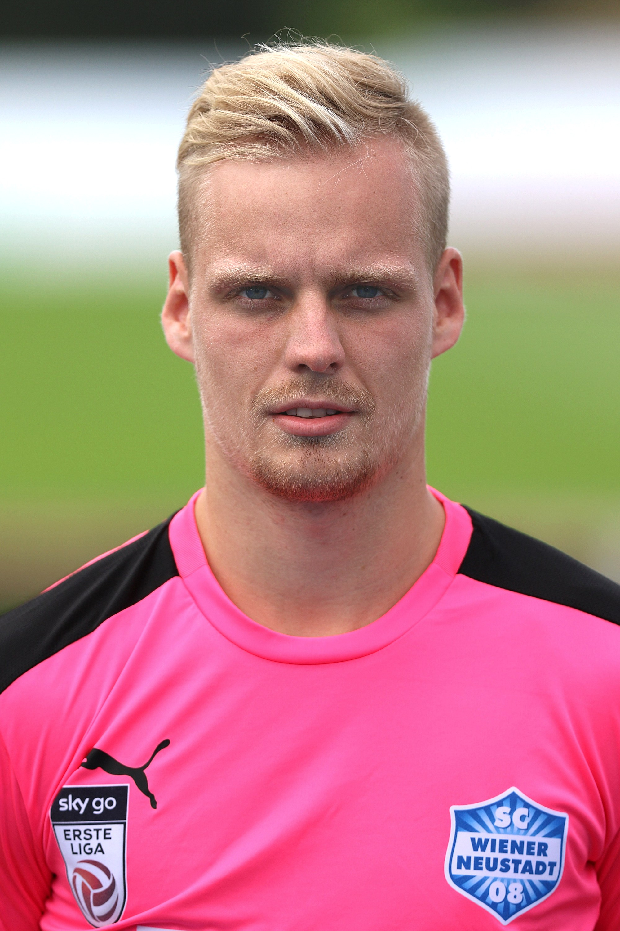 SC Wiener Neustadt squad presentation summer 2017. – The photo shows goalkeeper Domenik Schierl.